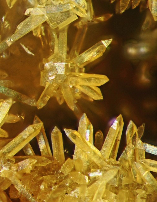 Thomsenolite "obelisks" with a few pseudo cubic ralstonite (top center cluster). Thomsenolite can look cubic as well but the labels says "ralstonite" and it would be suprising to have both habits in one cluster. In any case, the rest of the specimen has plenty of ralstonite. - Locality: Ivittuut (Ivigtut), Arsuk Firth, Arsuk, Kitaa (West Greenland) Province, Greenland - FOV: 2.4 x 3.0 mm